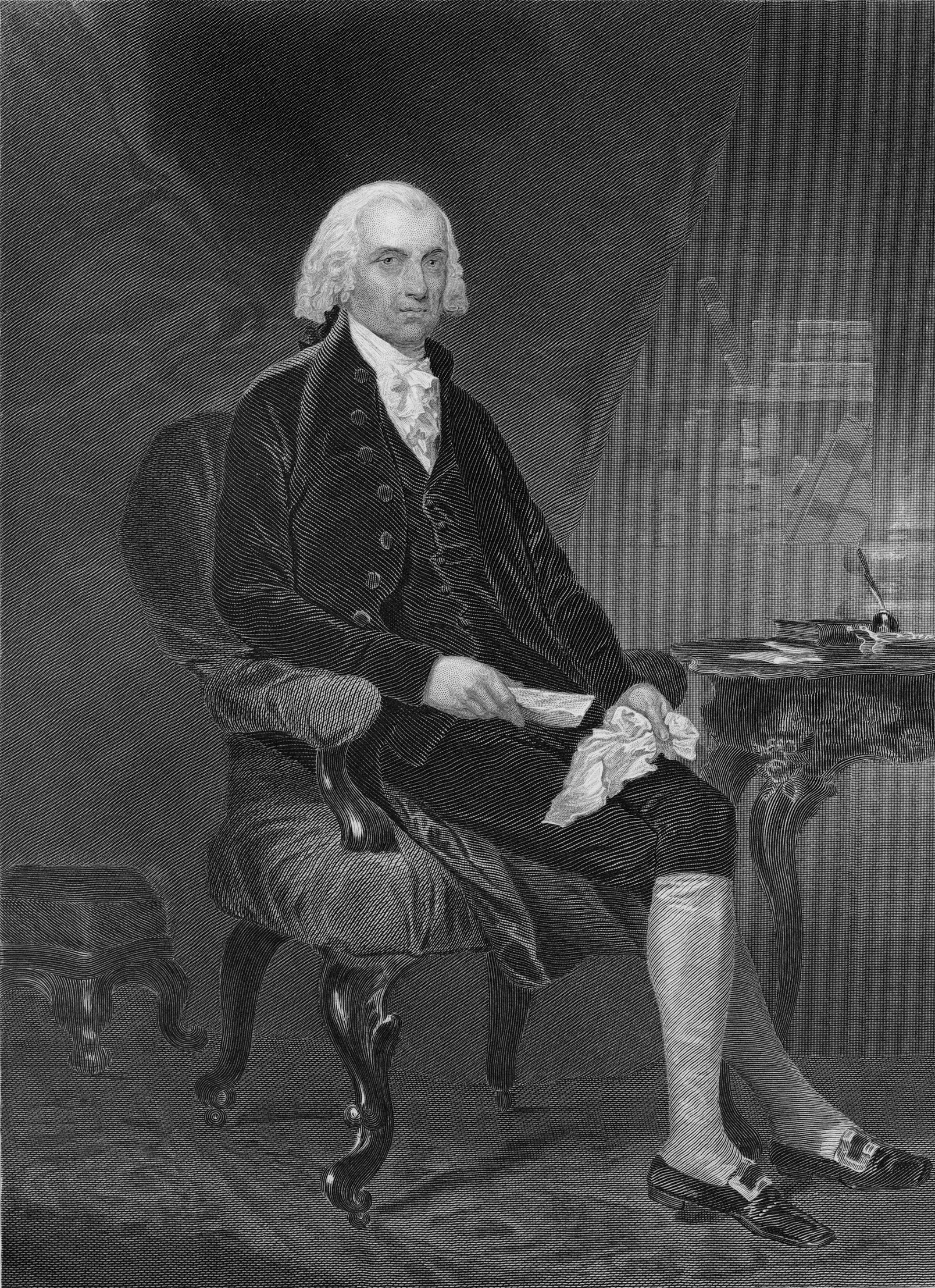 Sitting portrait of James Madison, President of the United States. Cropped and converted to black and white.